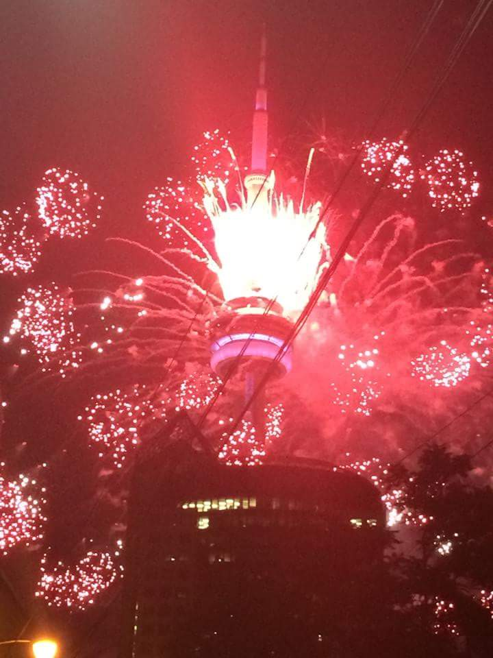 2015 Toronto Pan American Games Opening Ceremony - CN Tower Fireworks